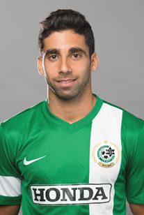 Chen Ezera חן עזרא